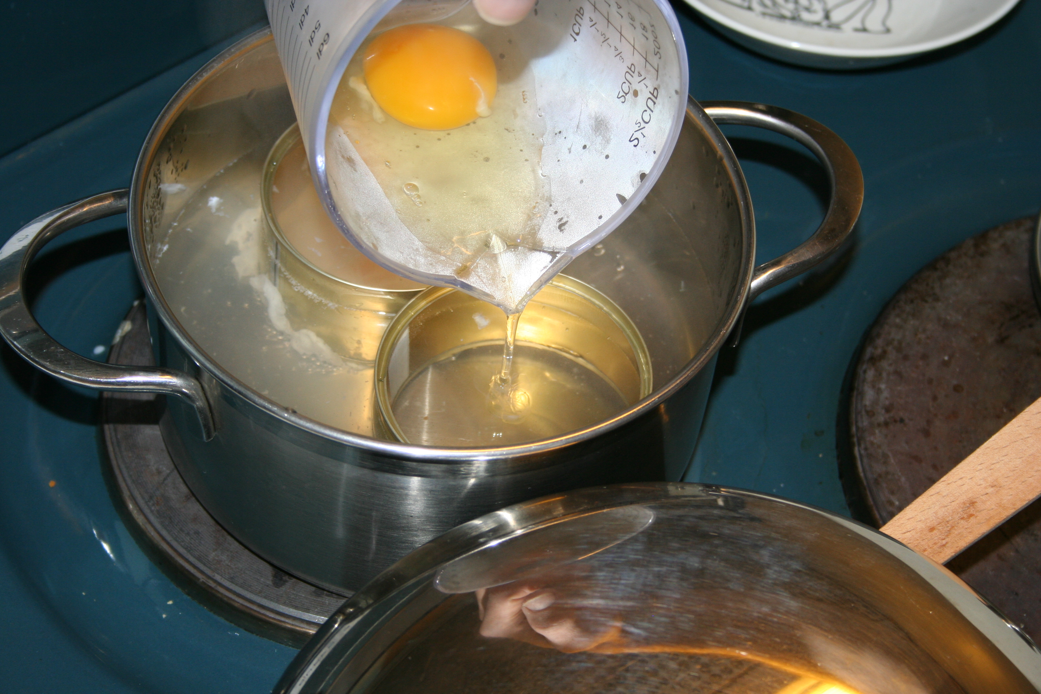 Egg poached with champagne